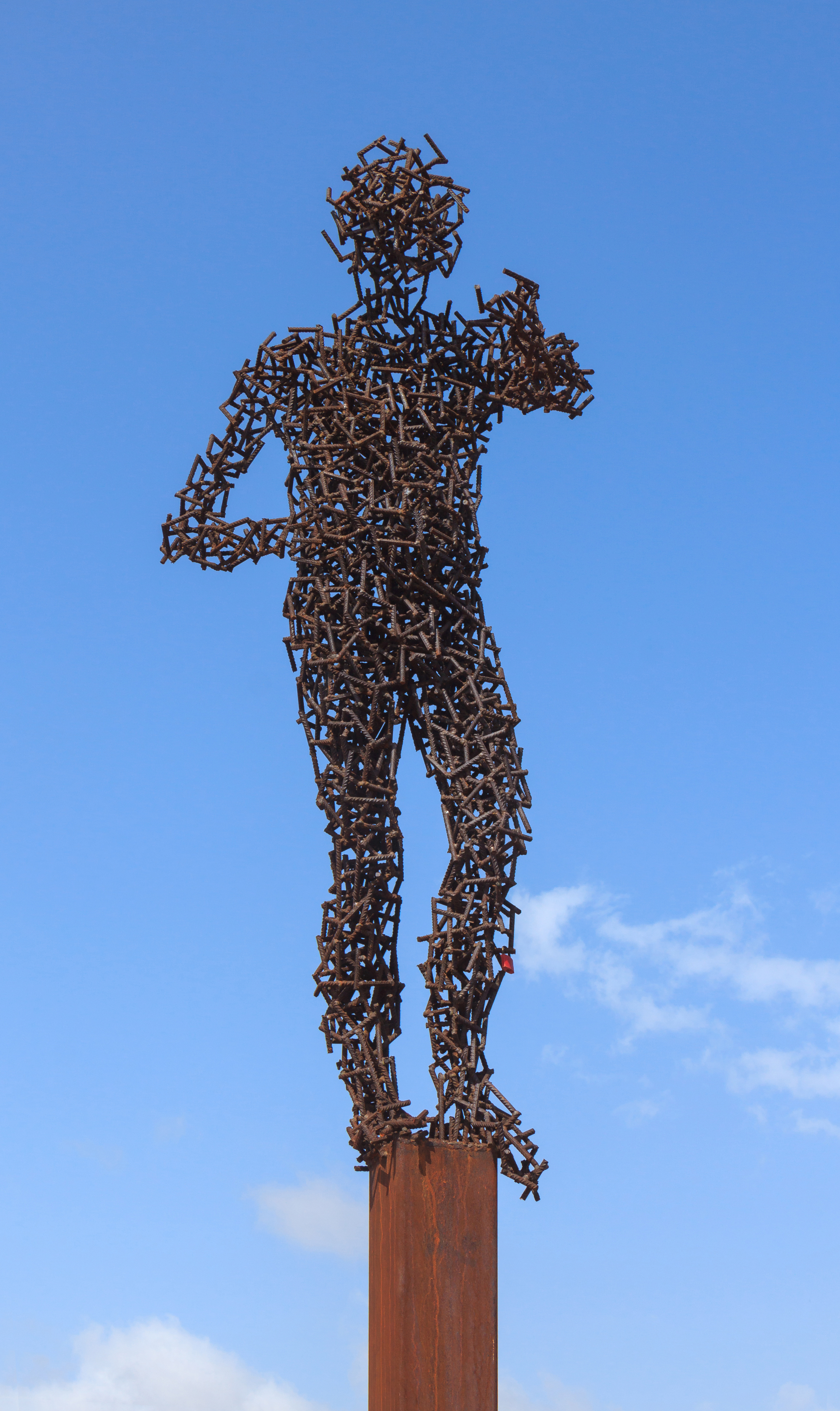 Sculpture "Luz en el Horizonte" by Amancio Gonzáles, Simposio Internacional de Escultura, Calle Acantilado, Morro Jable, Jandía, Fuerteventura, Canary Islands, Spain.